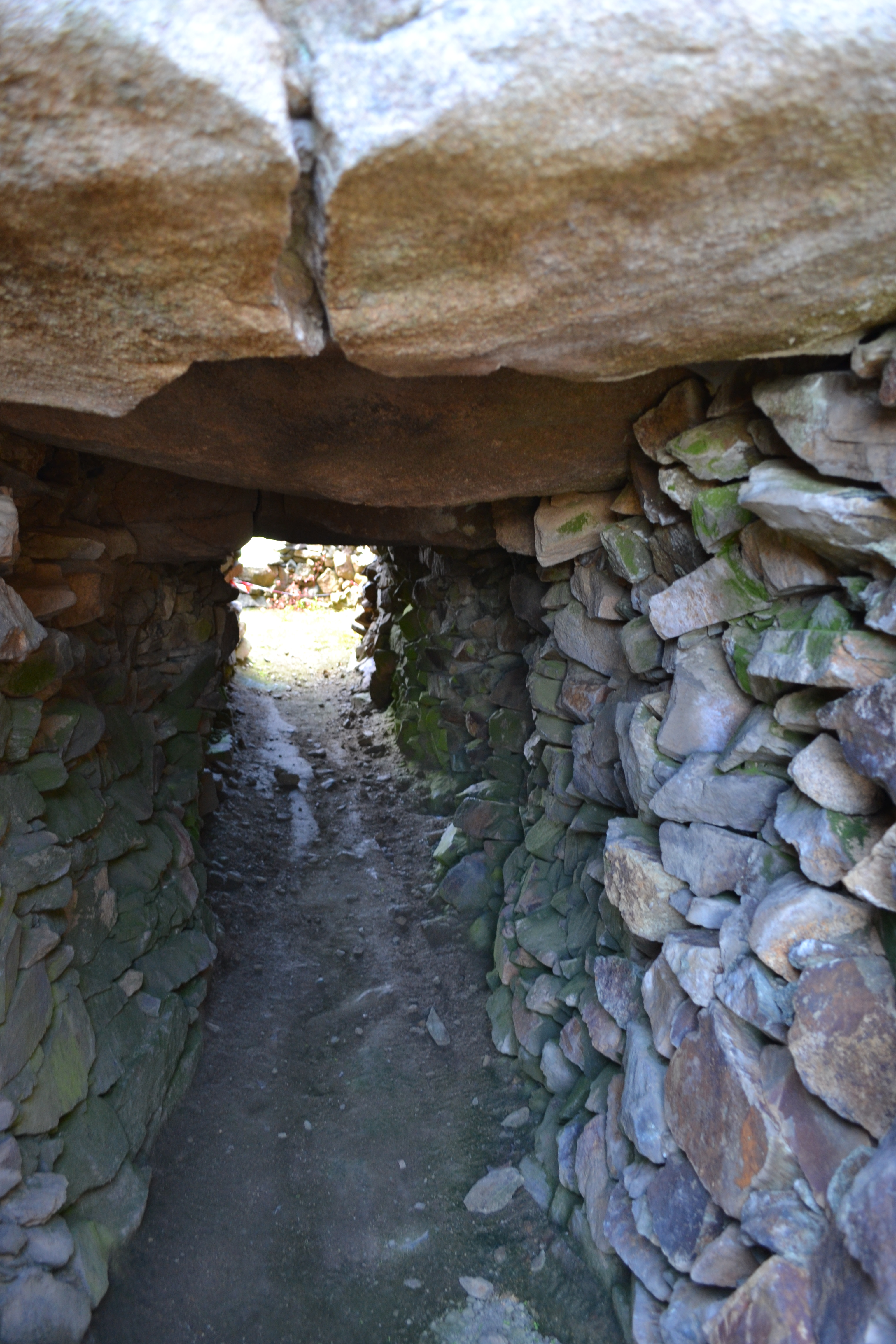 One chamber entrance with broken stone